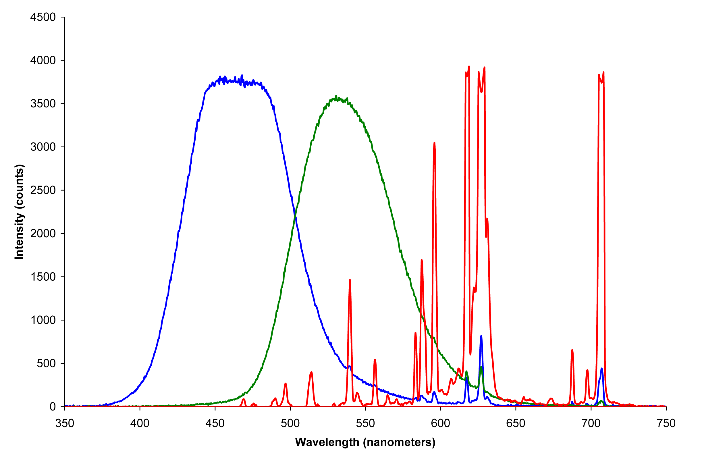 Spectra of individual color phosphors of a typical CRT video monitor. Spectra are NOT normalized and were taken by displaying completely saturated pure colors in an image editing application which was then sampled using an Ocean Optics HR2000 spectrometer [1] with a high-OH solarization-resistant fiber optic light guide. Note that there is some overlap of very strong spectral peaks onto the other spectra and I suspect that this is due to electrons "bleeding over" into adjacent colored phosphor dots, as focussing of the electron beams is not perfect in a CRT. The light from the red phosphor appears to affect the spectra of the green and blue phosphors much more than either the blue or green affect eachothers spectra or the red spectrum. Spectra taken by me. Data for spectra is on the talk page. This spectrum is not calibrated for intensity. Originally uploaded as "CRT phosphors.gif" on 12 May 2006 by Deglr6328 with the above comments. This new version is in the PNG format and is the exact same quality as the original but with a smaller file size.